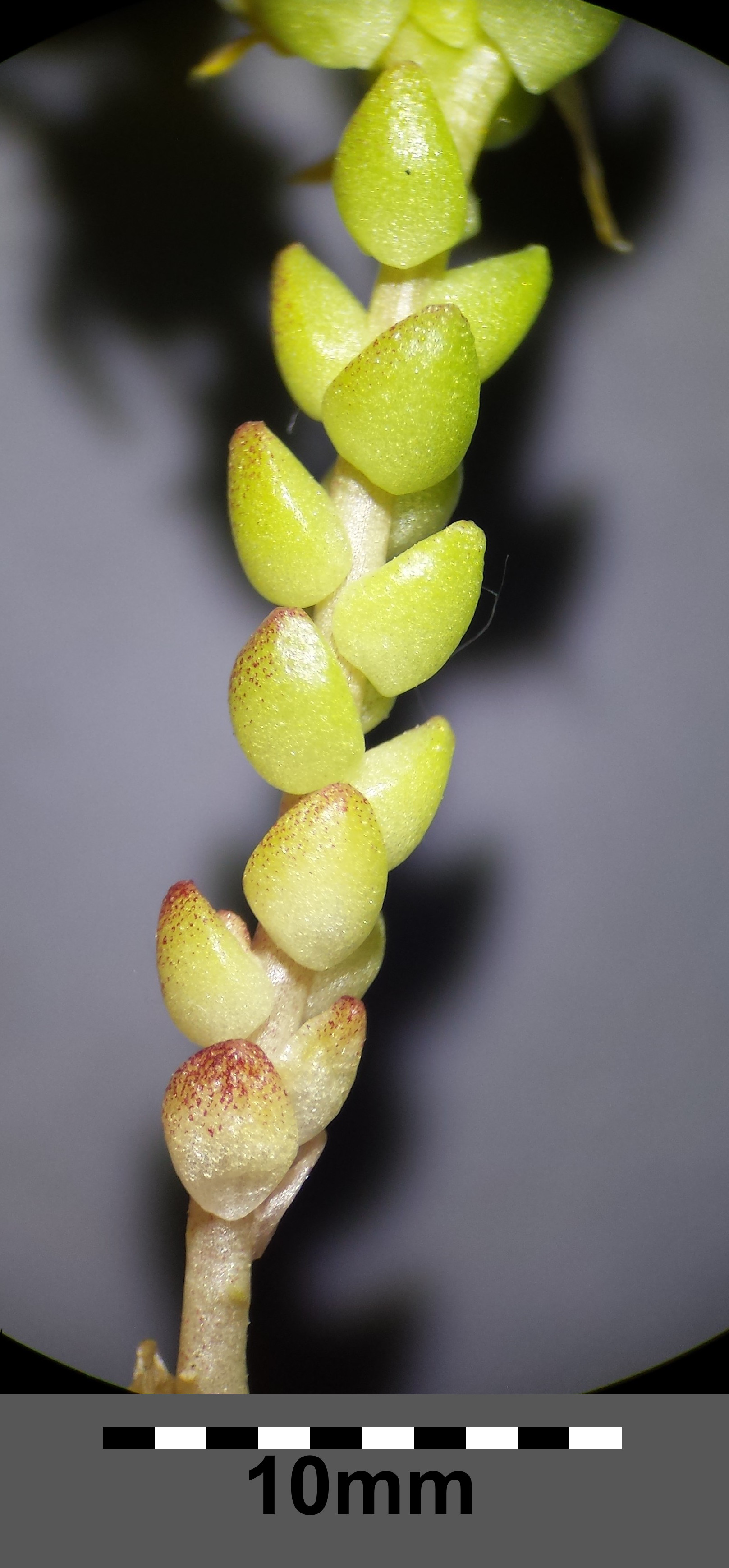 Stipe with leaves Taxonym: Sedum acre ss Fischer et al. EfÖLS 2008 ISBN 978-3-85474-187-9 Location: Steinberg near Niederhollabrunn, district Korneuburg, Lower Austria - ca. 375 m a.s.l. Habitat: rocks of limestone